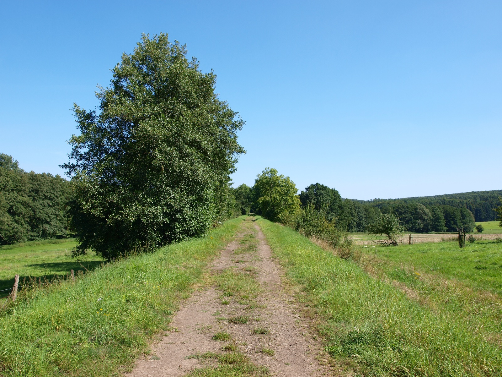 Old route of the railway line Friedberg-Mücke (Horlofftalbahn) near Laubach.